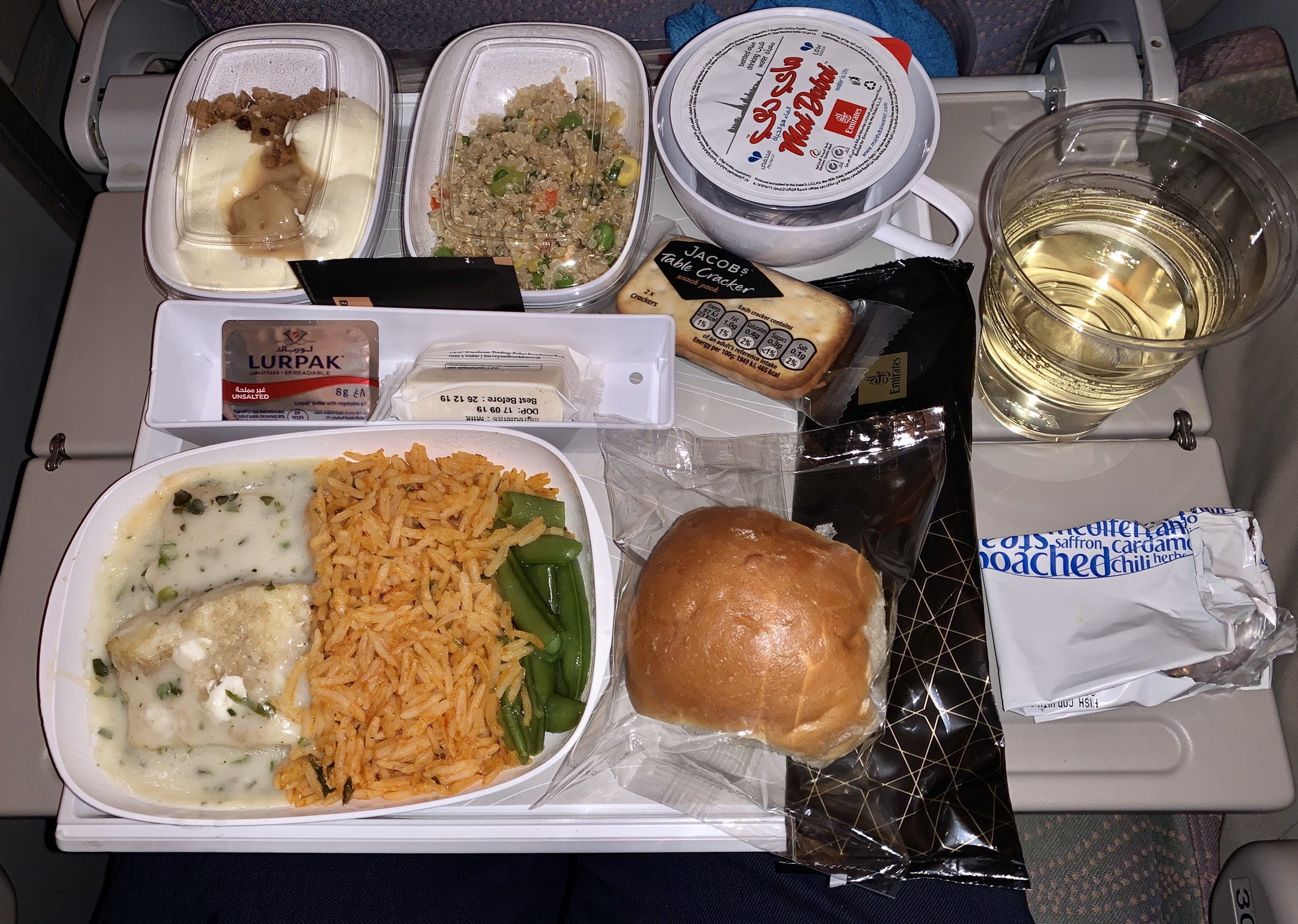 Emirates Economy class in-flight dinner meal Dubai to Brisbane